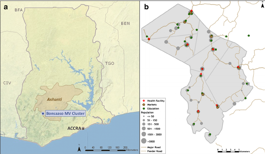 Map of Ghana showing the location of the Bonsaaso Millennium Villages cluster ( a ), with details of Bonsaaso ’ s administrative boundaries, major infrastructure, facilities, and population ( b ) (Sustainable Engineering Lab 2014) by Anderman, Tal & Remans, Roseline & Wood, Stephen & Derosa, Kyle & Defries, Ruth. (2014)